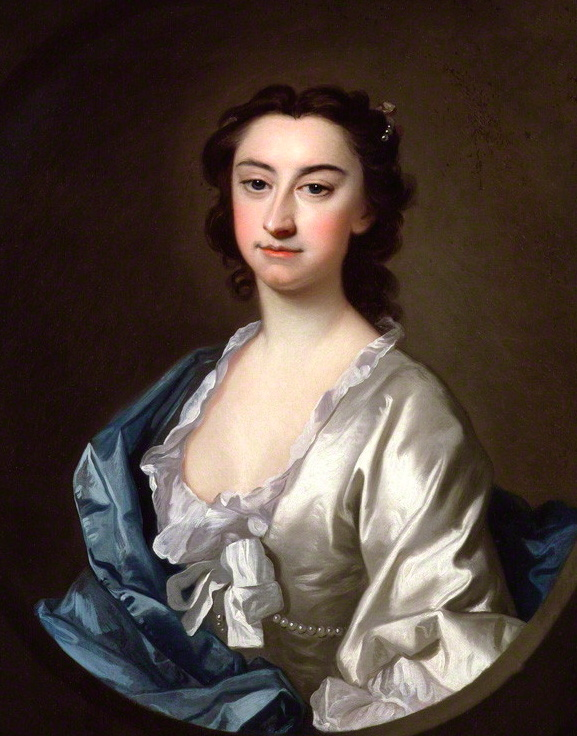 18th-century portrait of 18th-century singer, Susannah Maria Cibber, 2D reproduction of